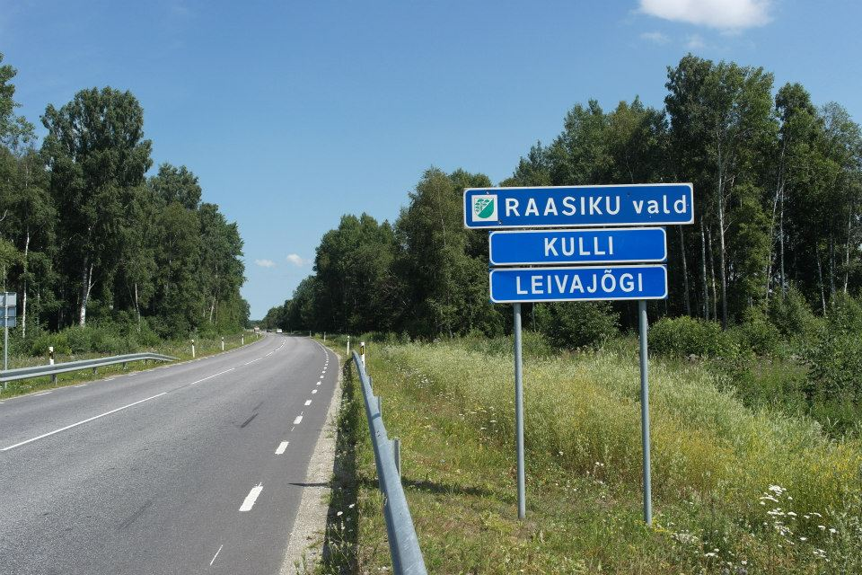 Entrance to Raasiku parish